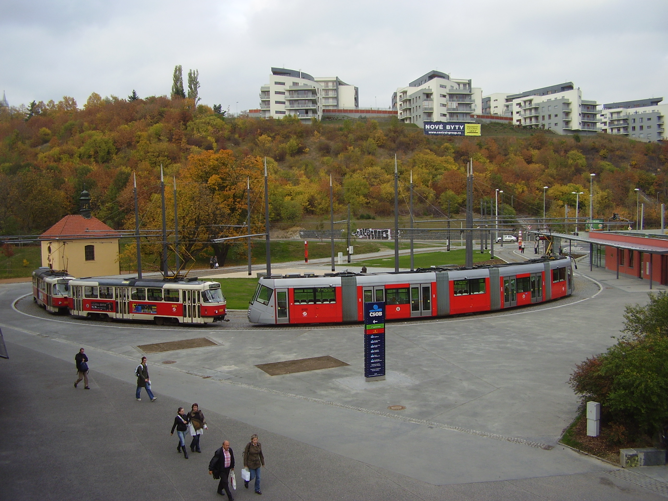 Tram track Radlice - End station Radlická